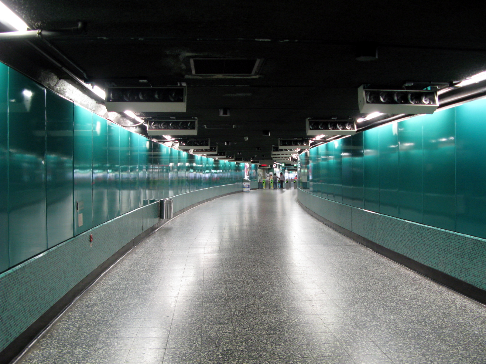 HK MTR Quarry Bay Station Access To Exit C 港鐵鰂魚涌站通往模範里大堂的通道